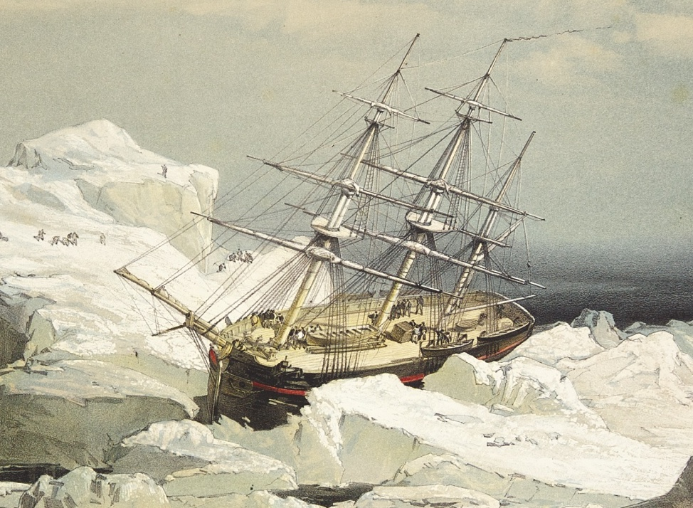 Critical position of HMS Investigator on the north-coast of Baring Island. August 20th. 1851.